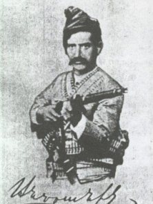 Andranik fedayi autograph poster.